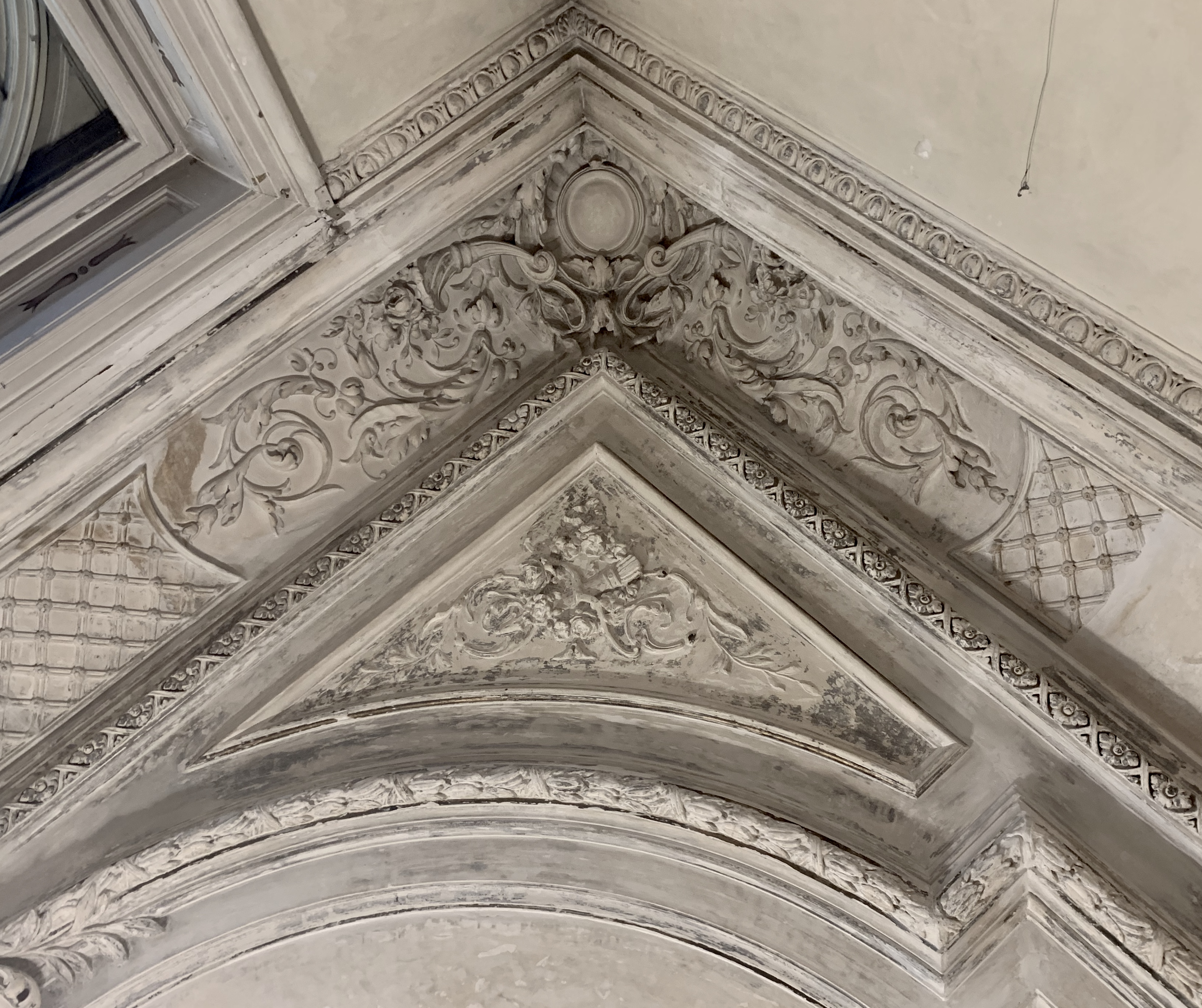 Corner a ceiling with stuccos from Cărturești Verona, in Bucharest (Romania)